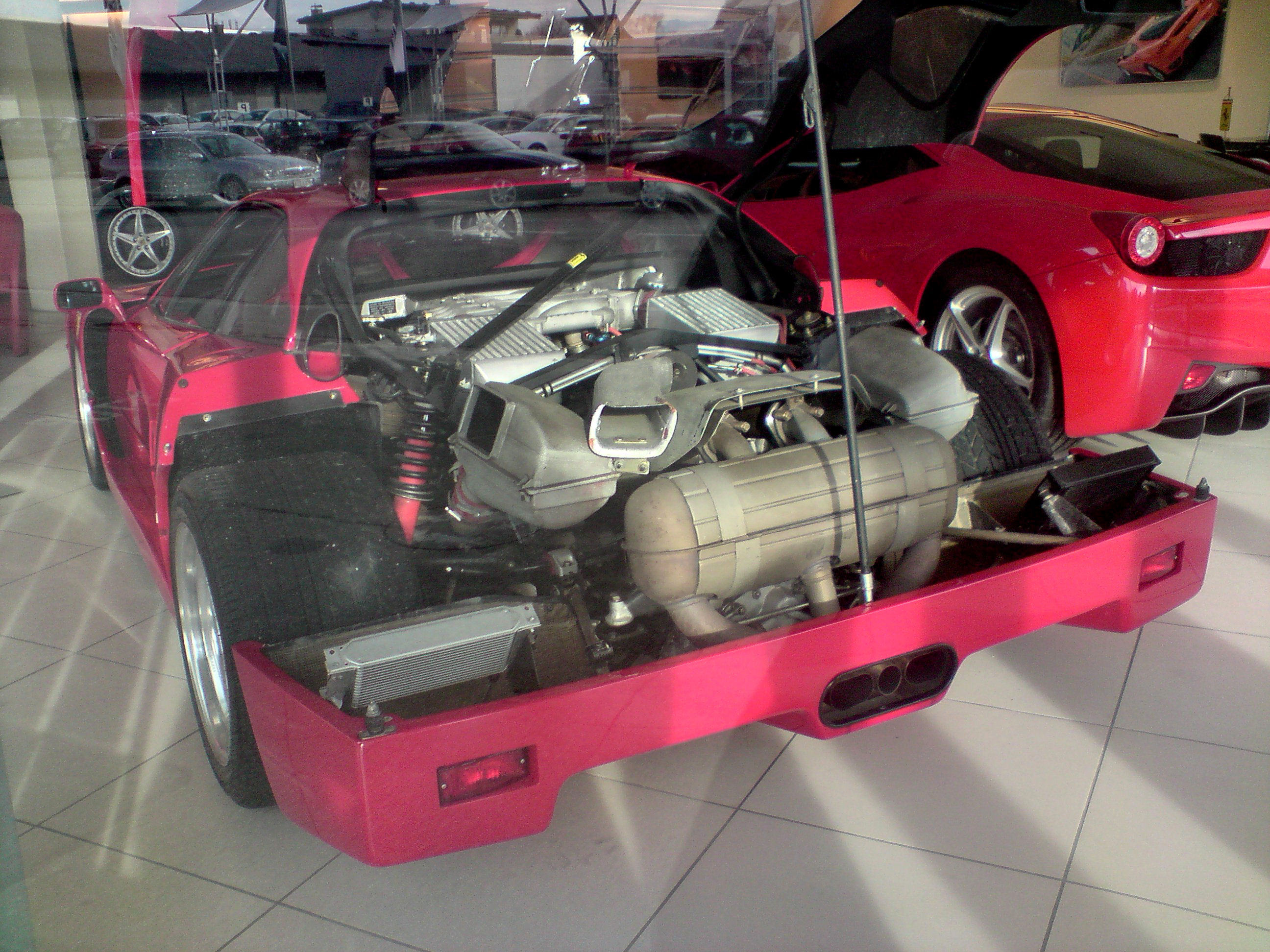 Engine bay of Ferrari F40. Seen in Singen, Germany.